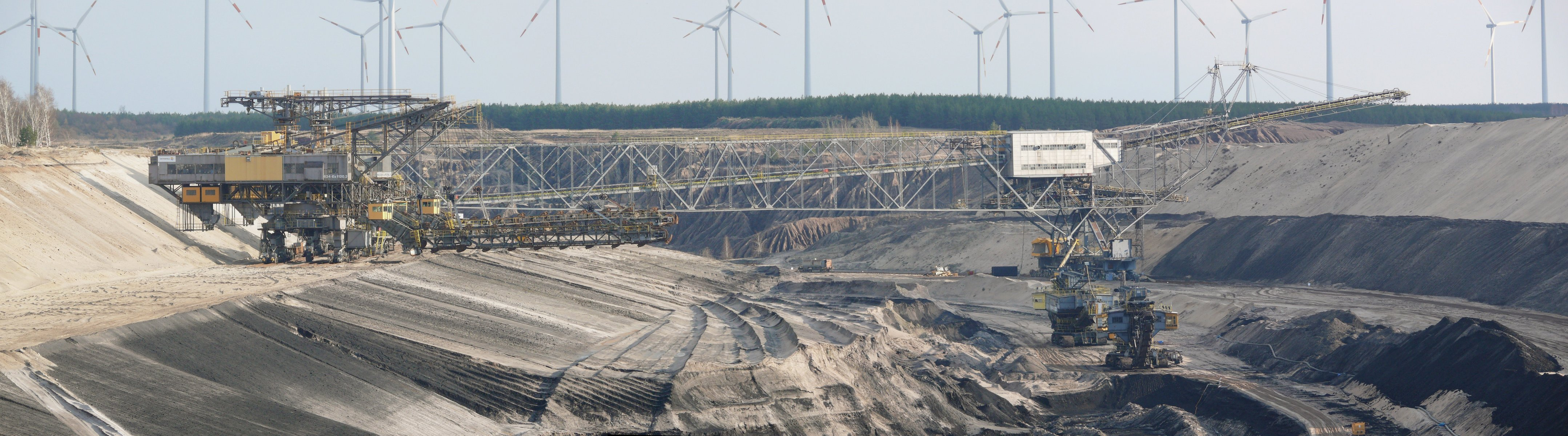 Overburden Conveyor Bridge of type F34 in the open cast mining Cottbus-Nord, Lusatia, Germany.